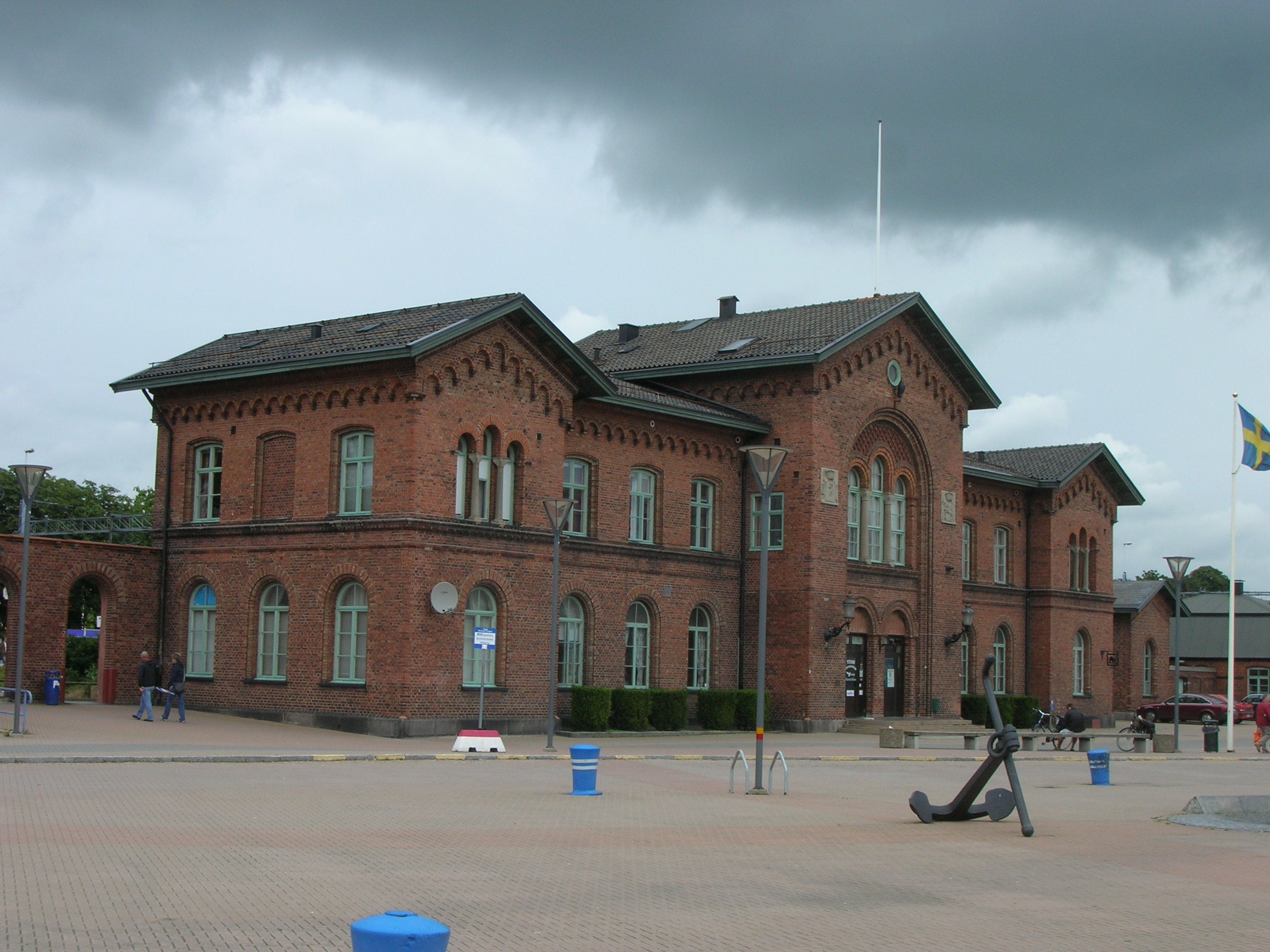 Ystad railway station.